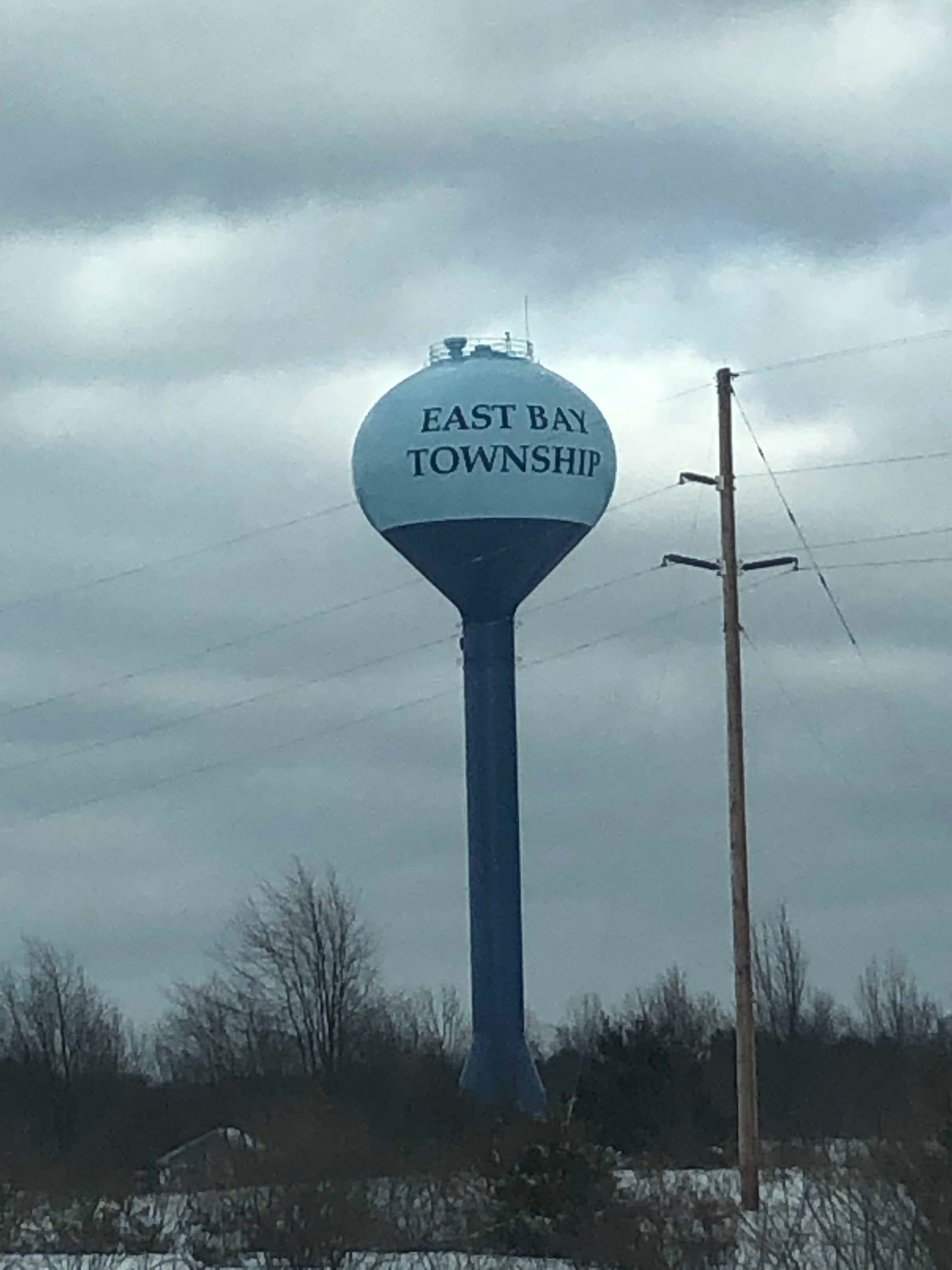 East Bay Water Tower (erected in 2017)